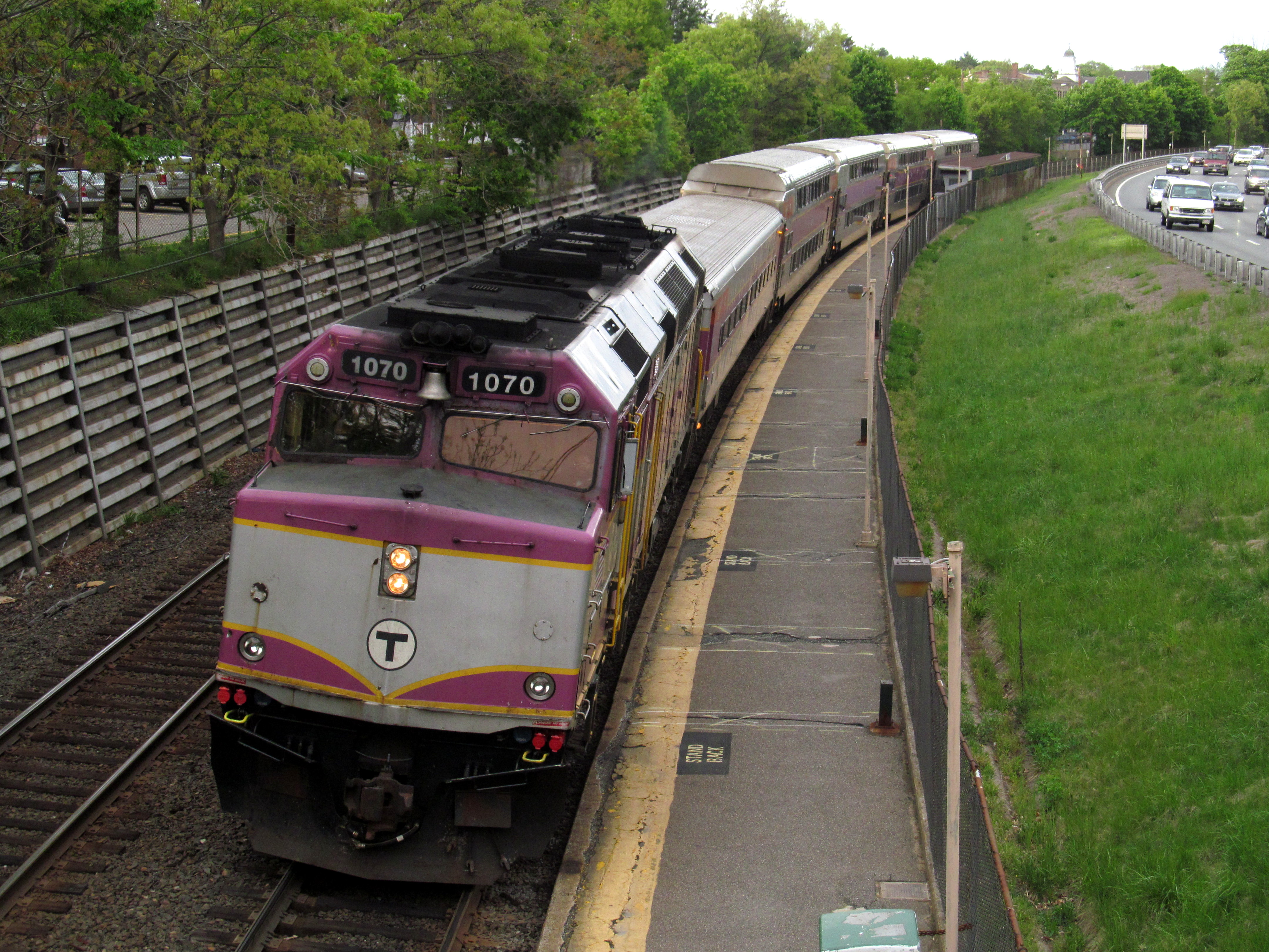 An outbound commuter rail train makes a station stop at Auburndale. View from the Woodland Road bridge.